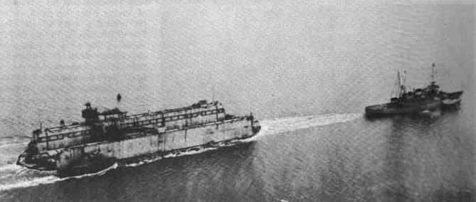 Auxiliary Repair Dock, Concrete under tow to a remote Navy Base to repair ships